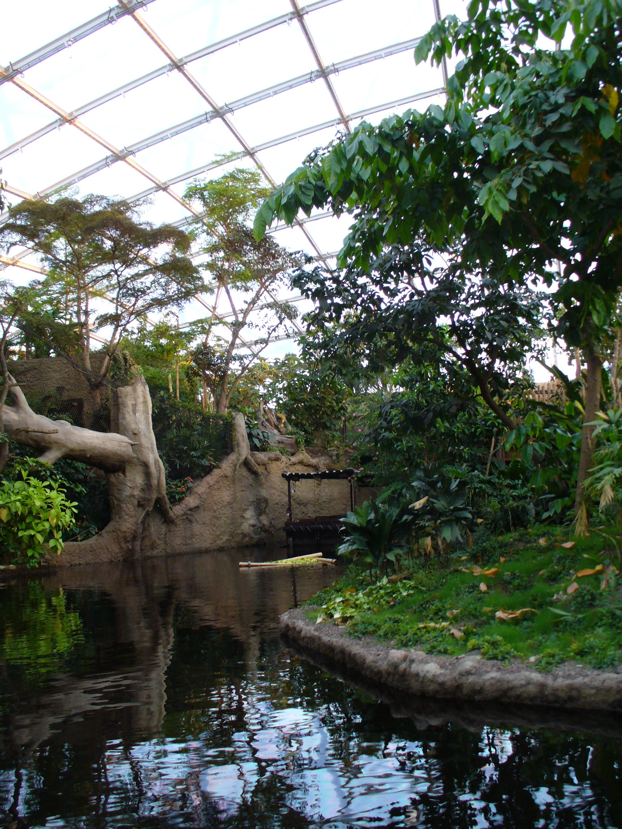 Opening of Gondwanaland, Zoo Leipzig, Germany, 30 June 2011